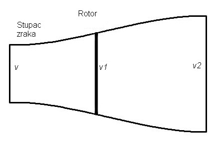 A sketch of a so called stream tube